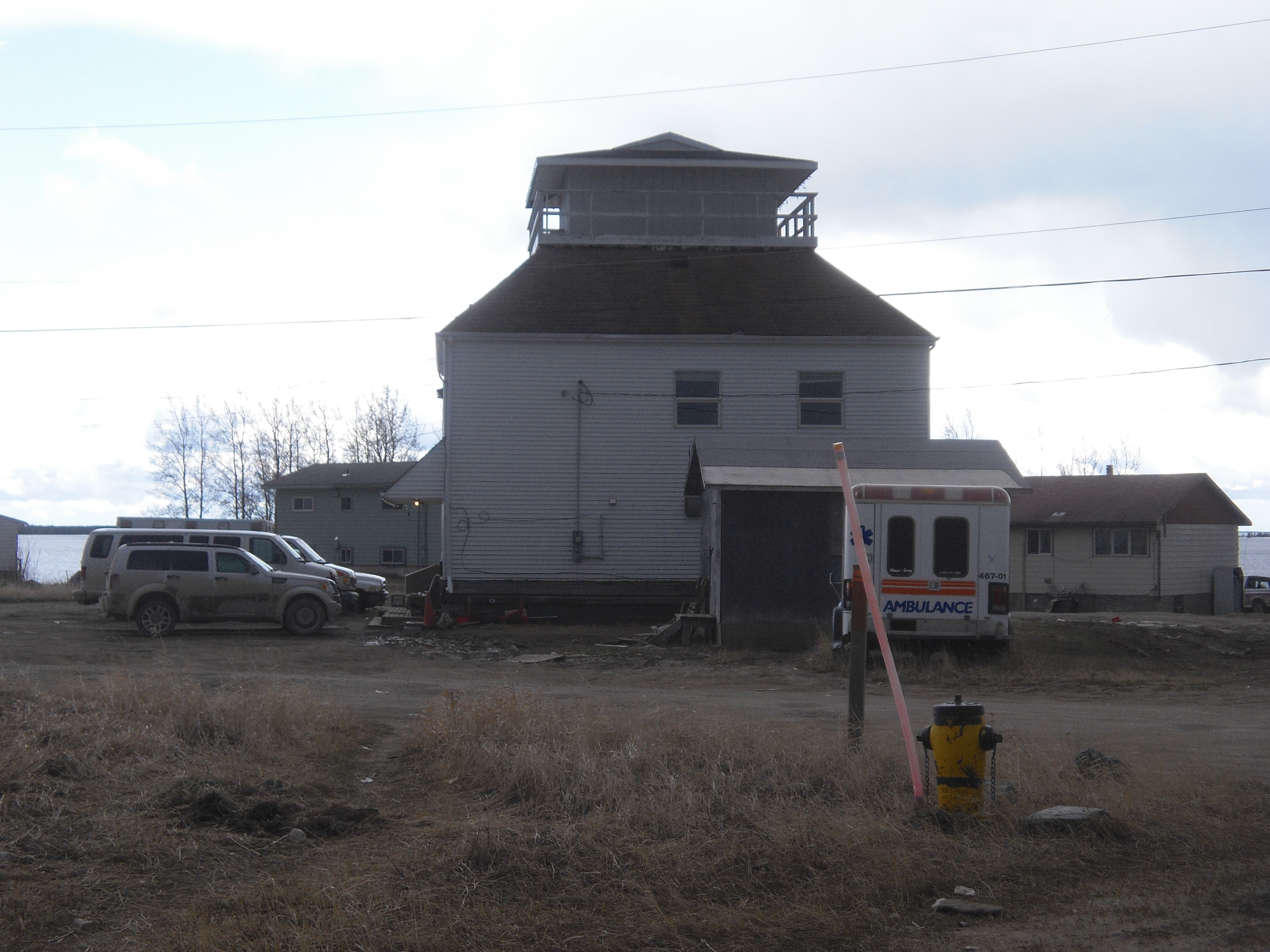 Big Trout Lake Health Office in May 2012